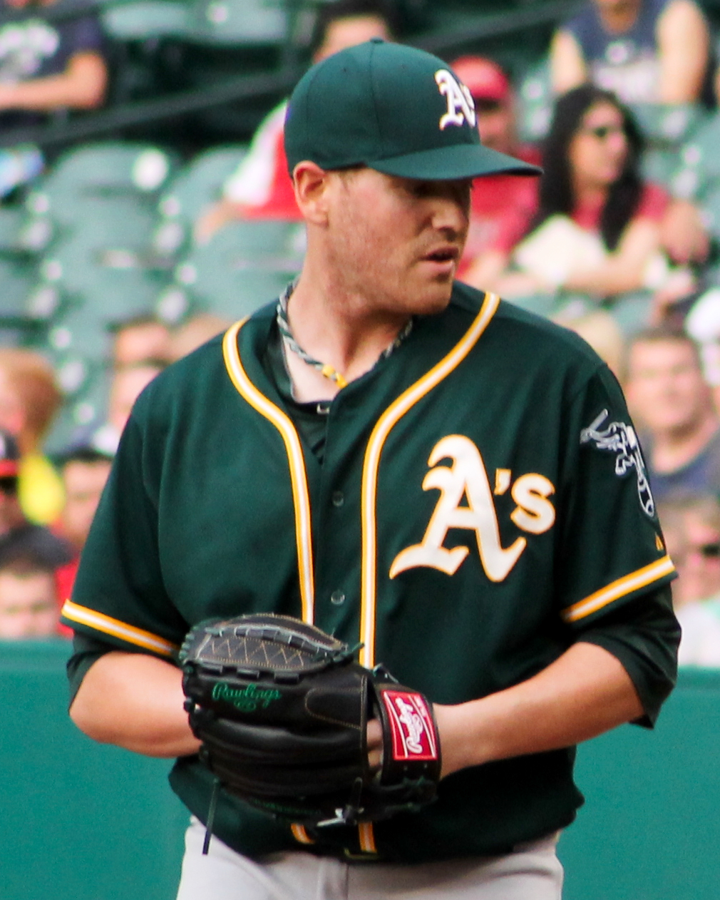 Pitcher Dan Straily of the Oakland Athletics at Minute Maid Park in April 2014.